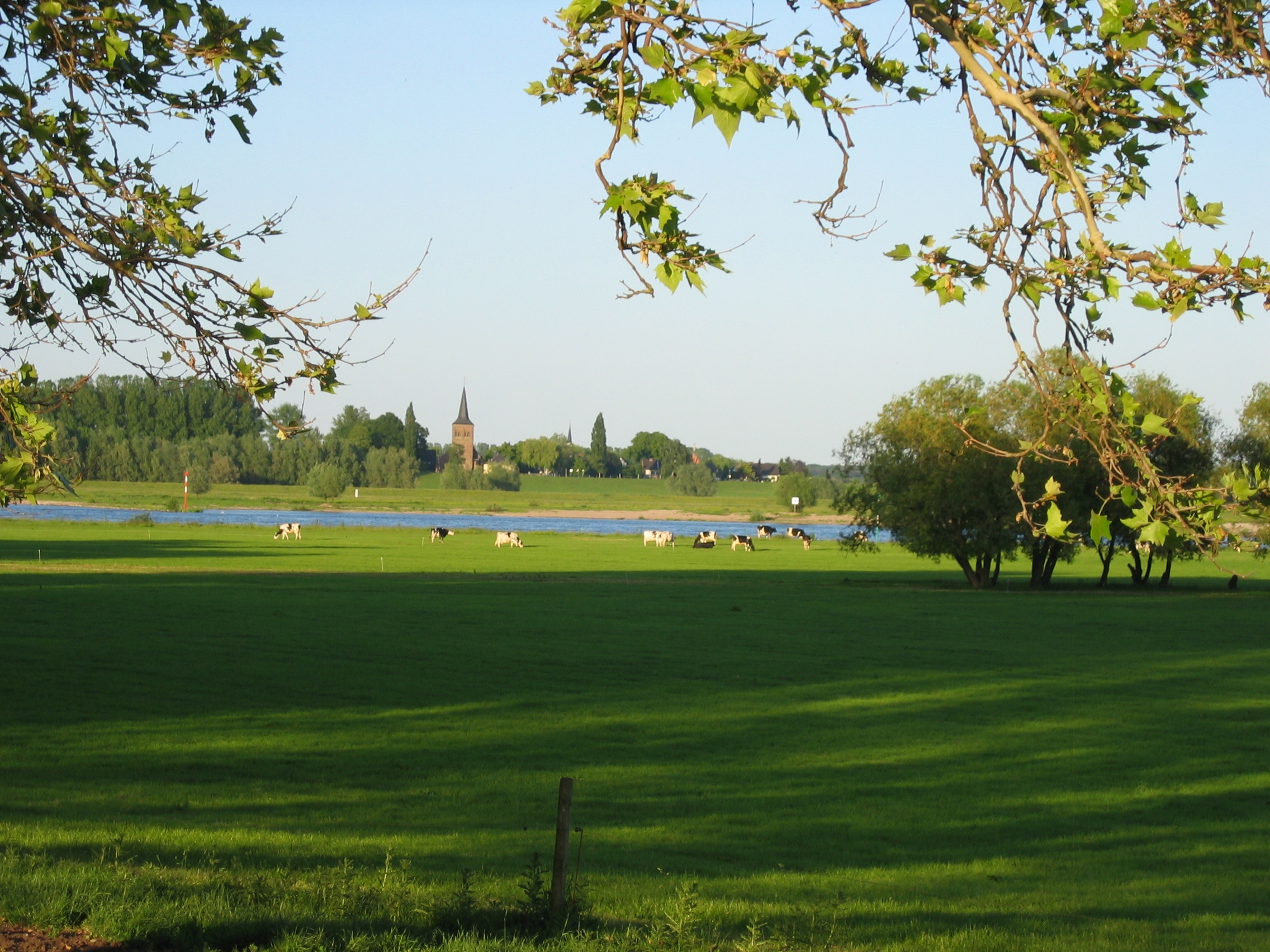 Typical Lower Rhine landscape in North Rhine-Westphalia (Germany): view from Lüttingen (Xanten) across the Rhine onto Bislich (Wesel); the pasture in the foreground is part of a nature reserve